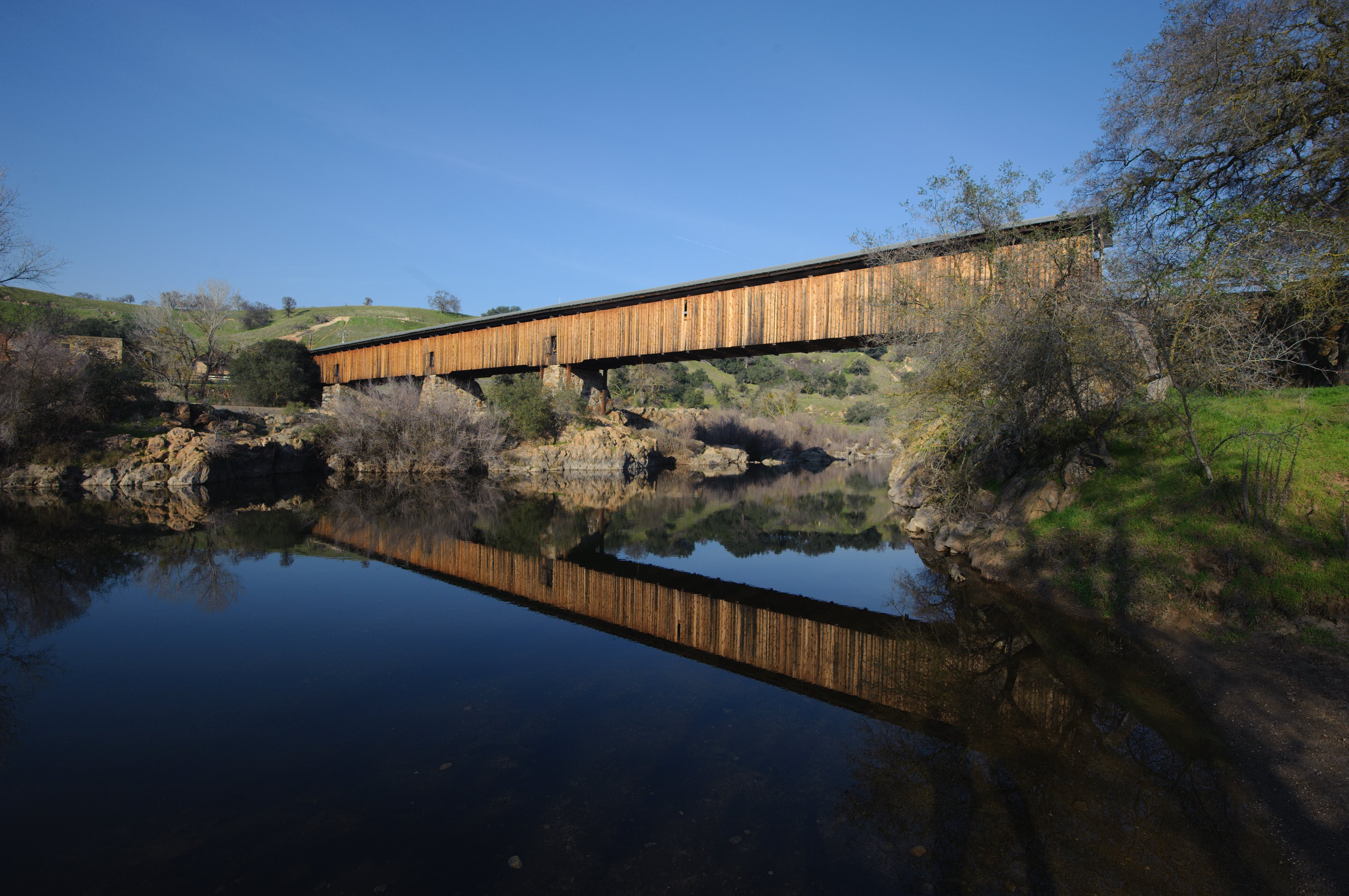 Knights Ferry covered bridge — crossing the Stanislaus River in Knights Ferry, California. The longest covered bridge west of the Mississippi River, at 330 feet (100 m) in length. A California Historical Landmark, and a Knights Ferry Historic District contributing property on the National Register of Historic Places.